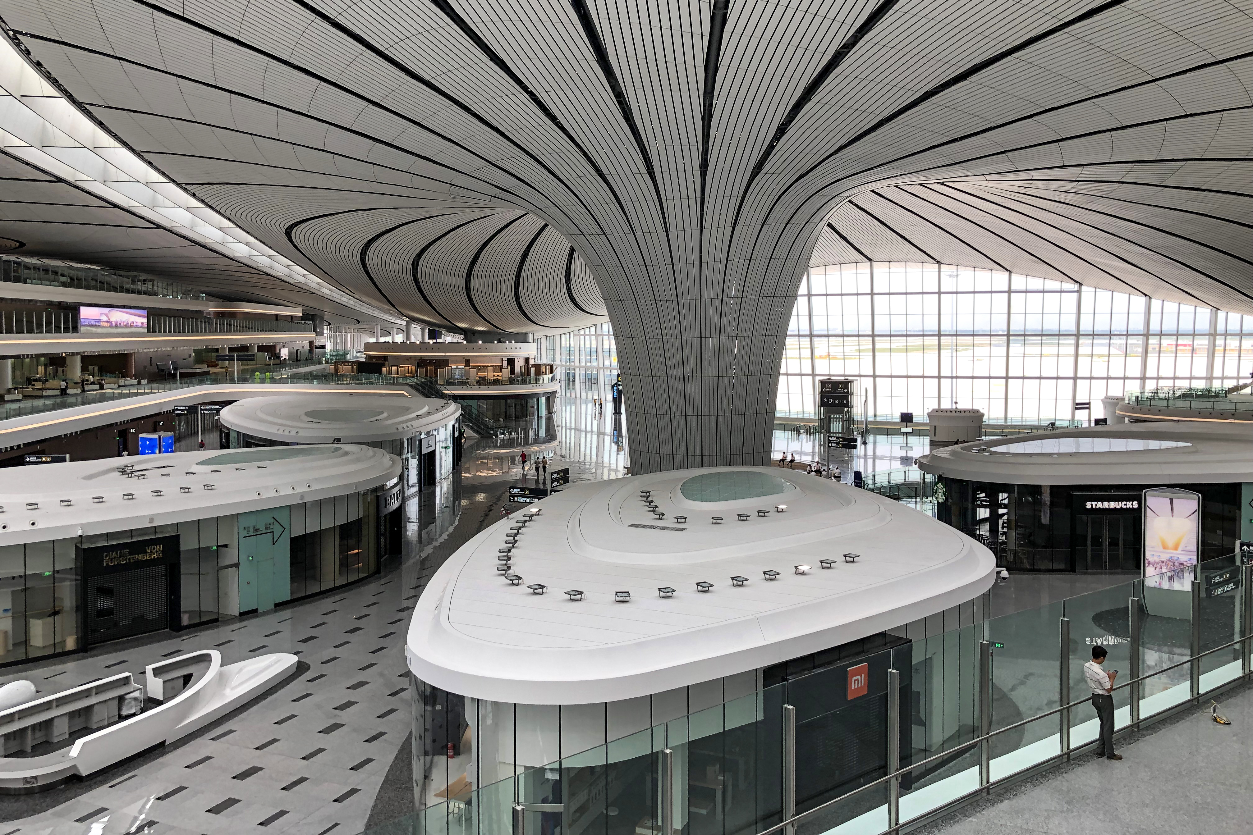 And the east is C and D.